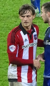 John Swift, Brentford footballer, during a match against Cardiff City.